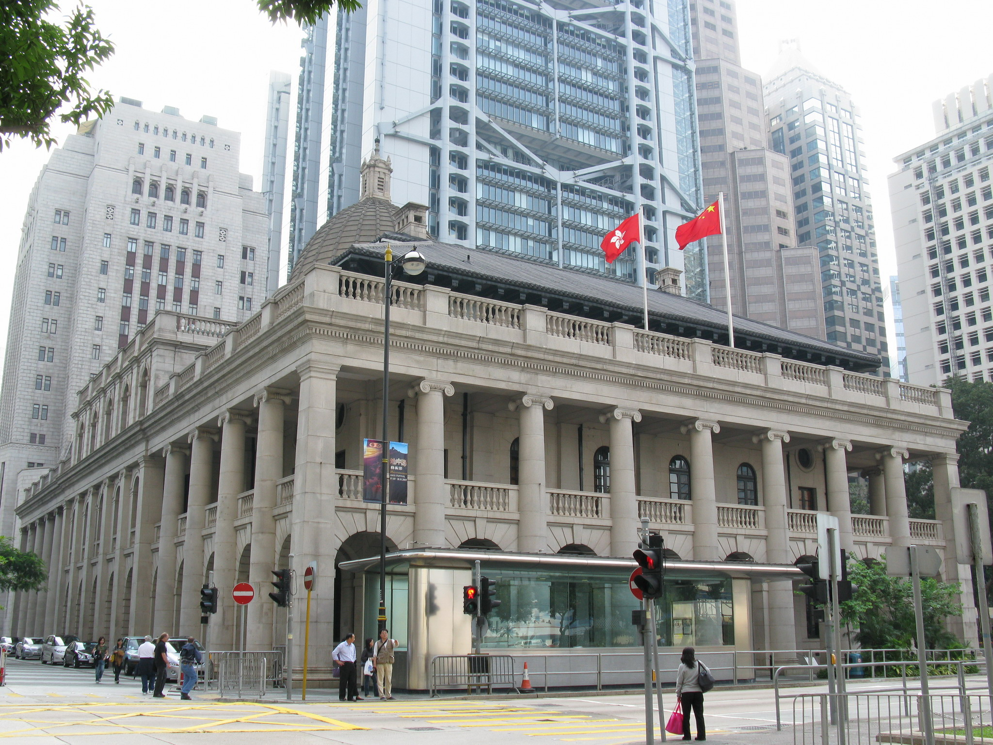 立法會大樓 (1985-2011) Legislative Council Building (1985-2011)